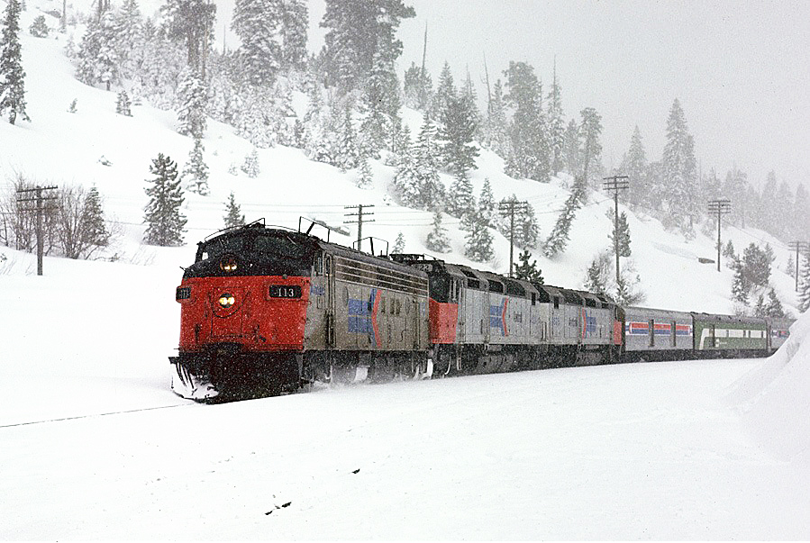 A repost/duplicate but cleaned up this time